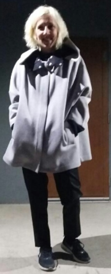 Ingrid St-Pierre photographed in Montreal, Quebec, Canada outside L'entrepôt.